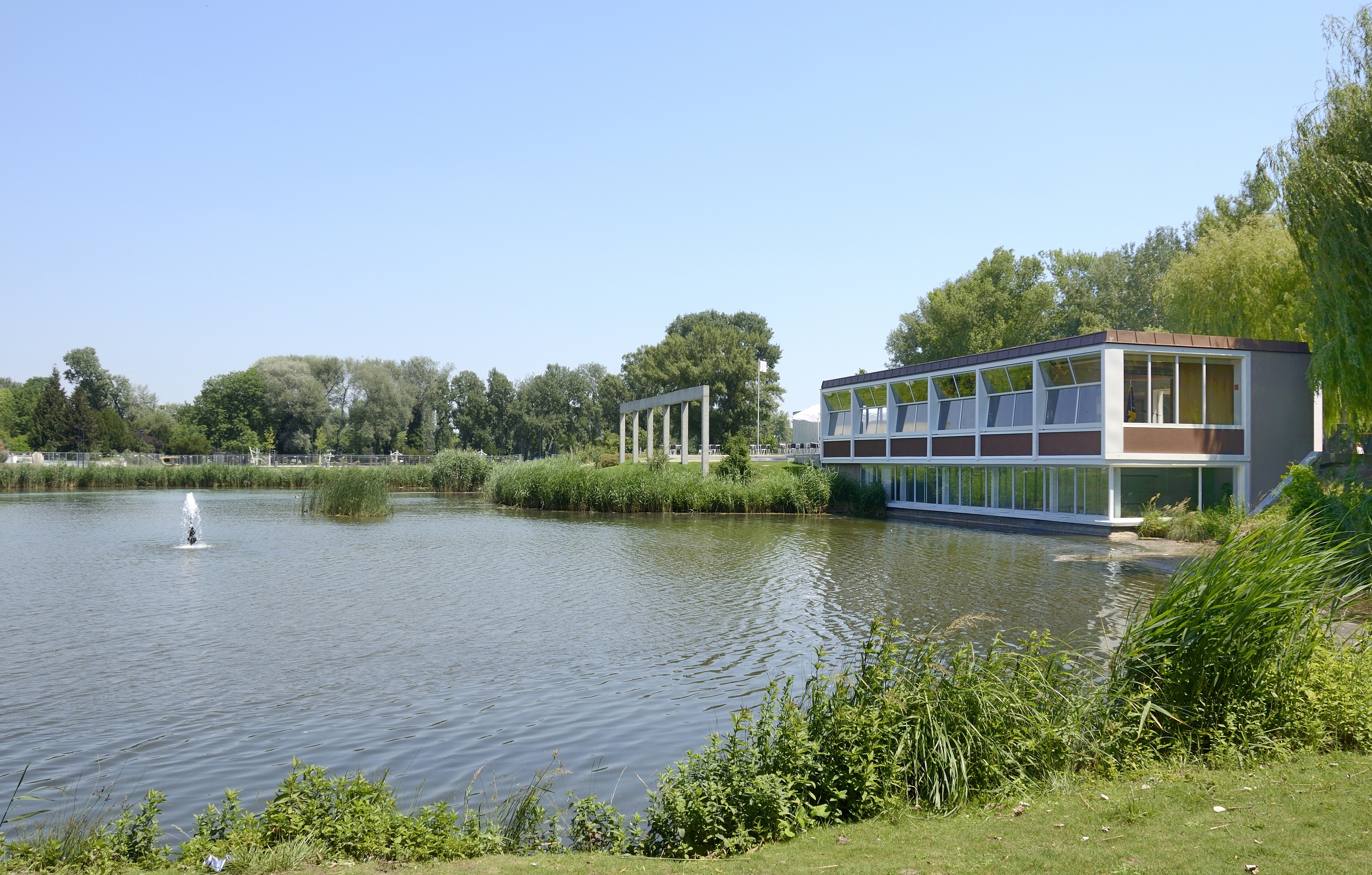 Former lake restaurant at Irissee, Korean cultural house, Donaupark, Vienna